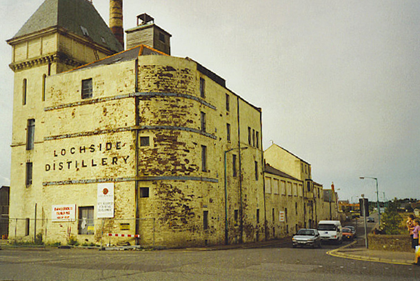 The now demolished Lochside Distillery in Montrose, Angus.